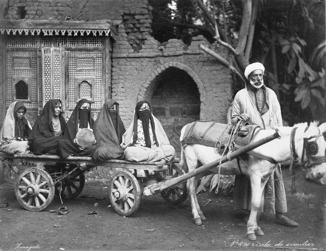 Cropped and desaturated version of File:Zangaki. 0896. Arab with Three Wives and Two Servants.jpg